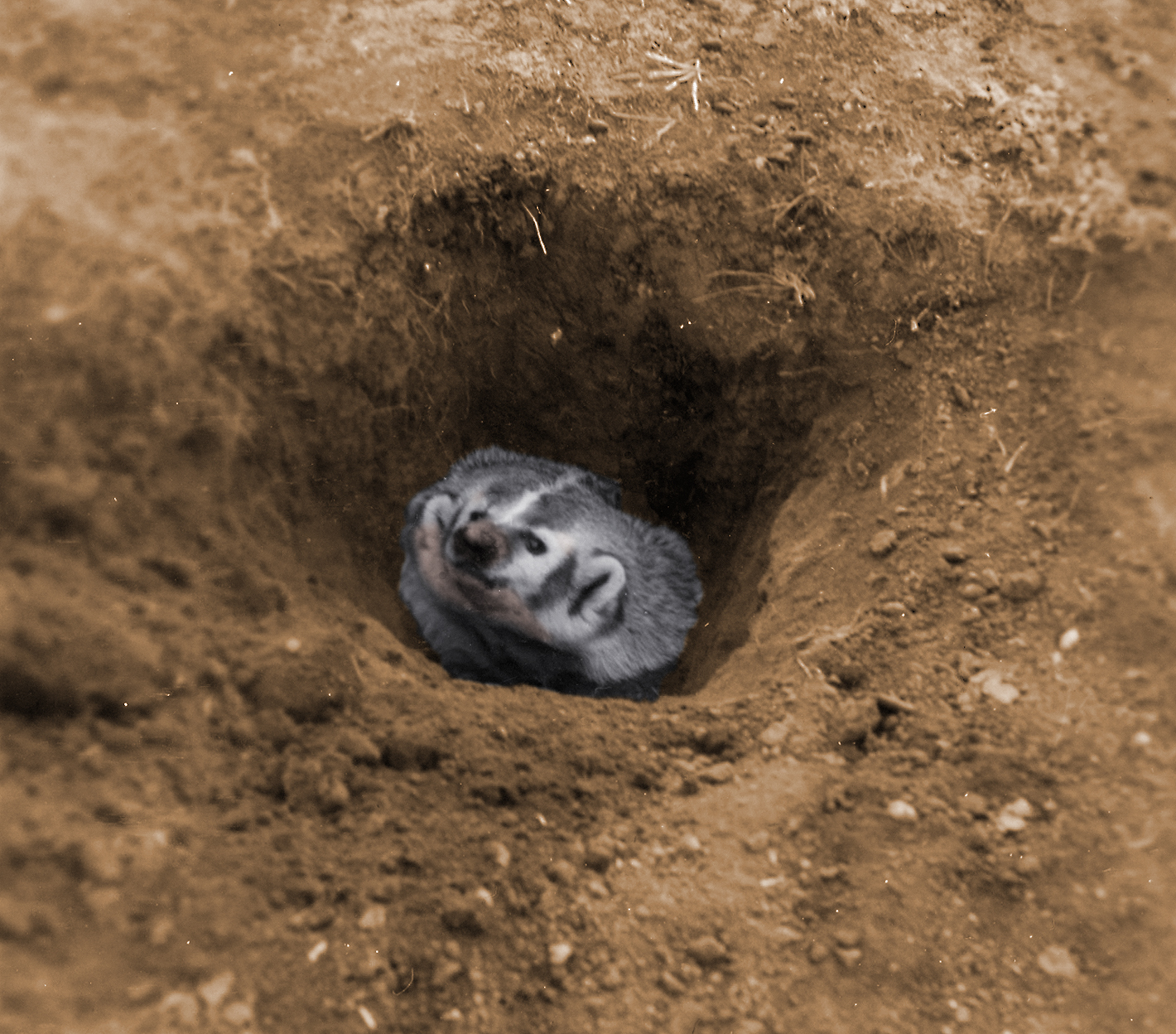 A badger in its hole